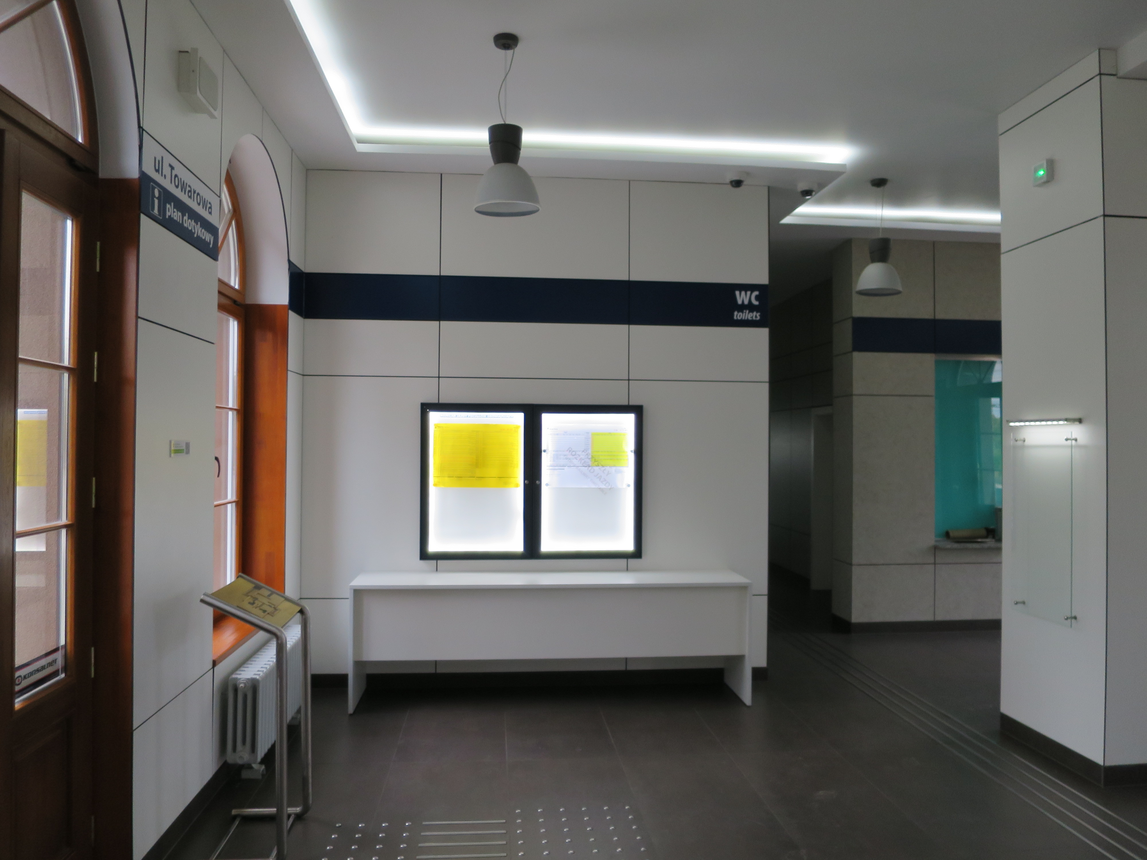 Brzeg Dolny This photo was taken during Railway Wikiexpedition 2015 set up by Wikimedia Polska Association in cooperation with Fundacja Grupy PKP. You can see all photographs in category Wikiekspedycja kolejowa 2015.